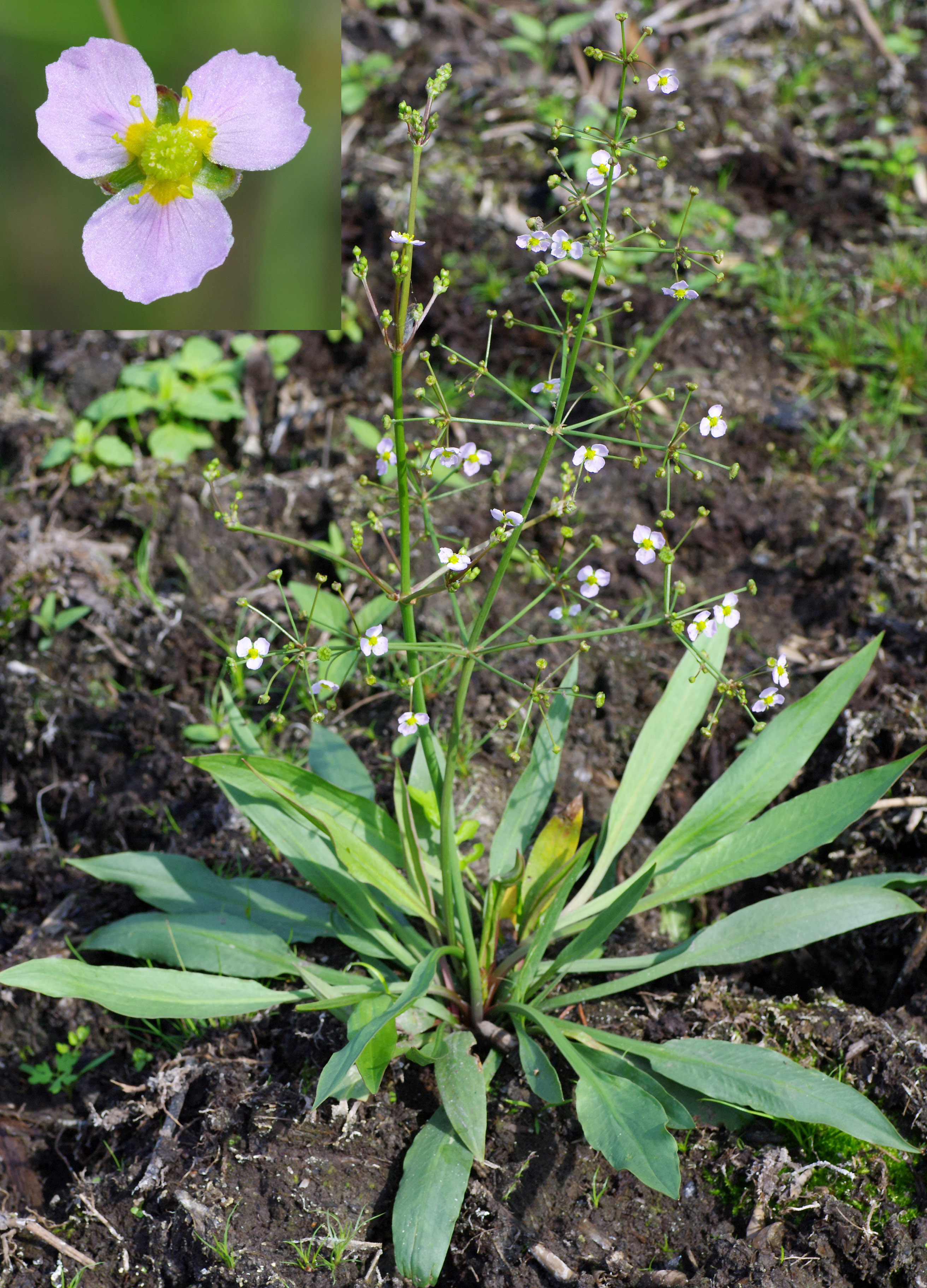 Flowering habitus and single blossom of Lanceleaf water plantain, Alisma lanceolatum.